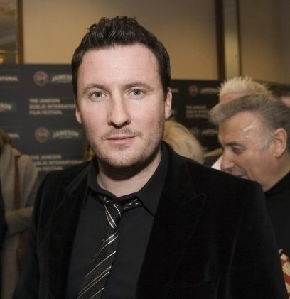 Picture of Gavin O'Connor taken at film event in Ireland